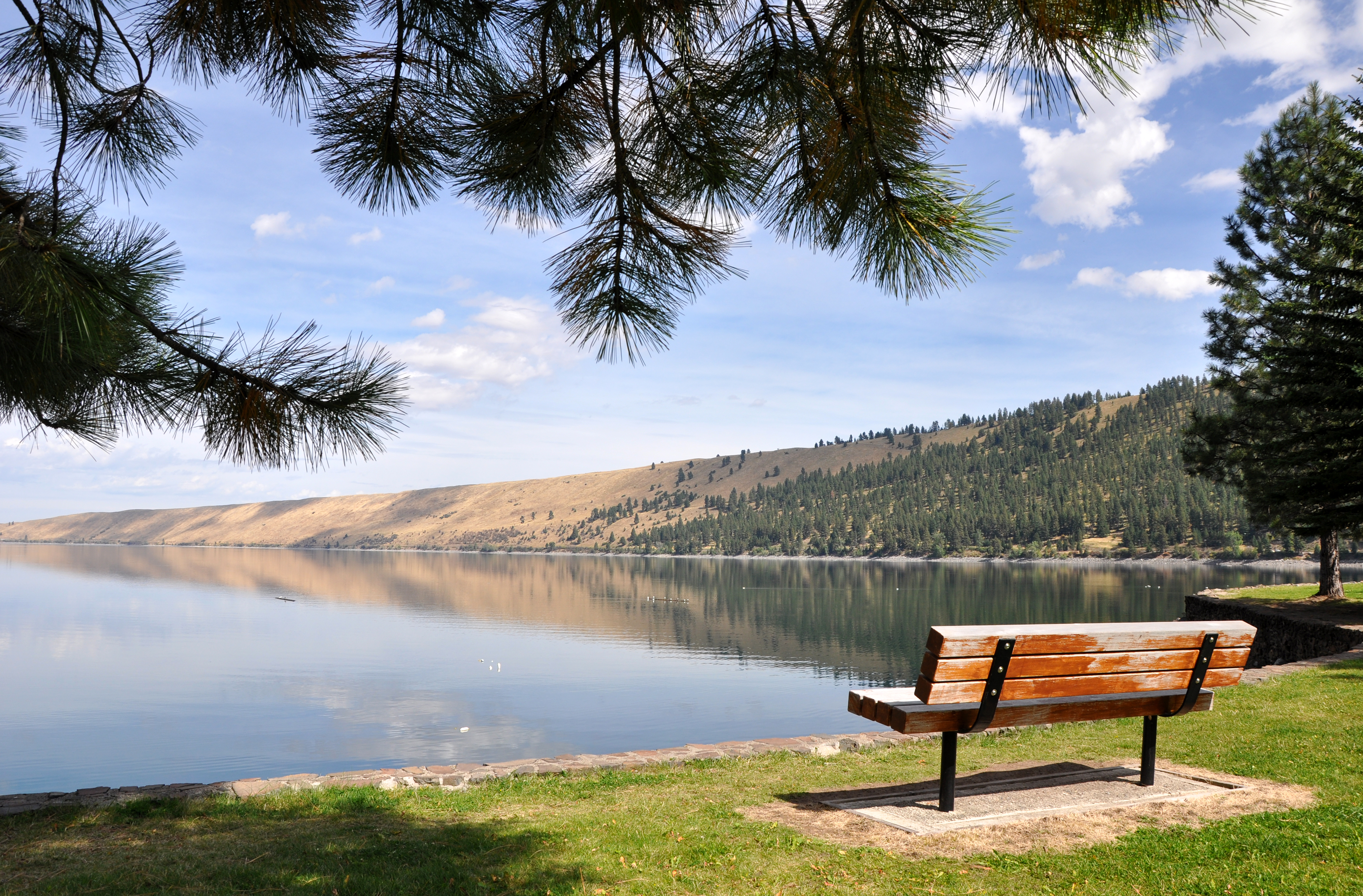 Wallowa Lake as seen from a bench near the marina of Wallowa Lake State Park, near Joseph, Oregon, in the United States. The park is at the south end of the lake.